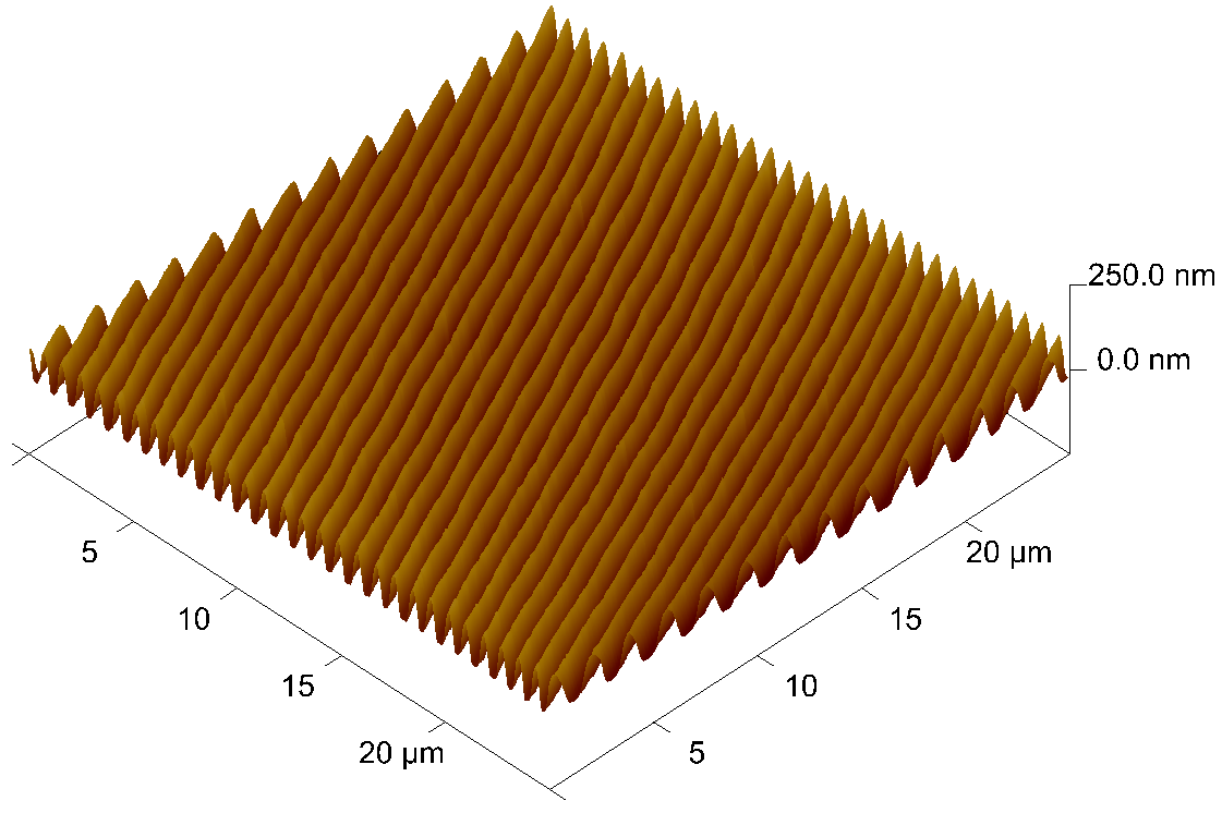 Surface of the DVD disk made using AFM